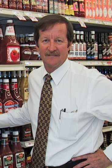 Photo of Brian Harris that was released by his photographer into the public domain--email confirming this has been sent.